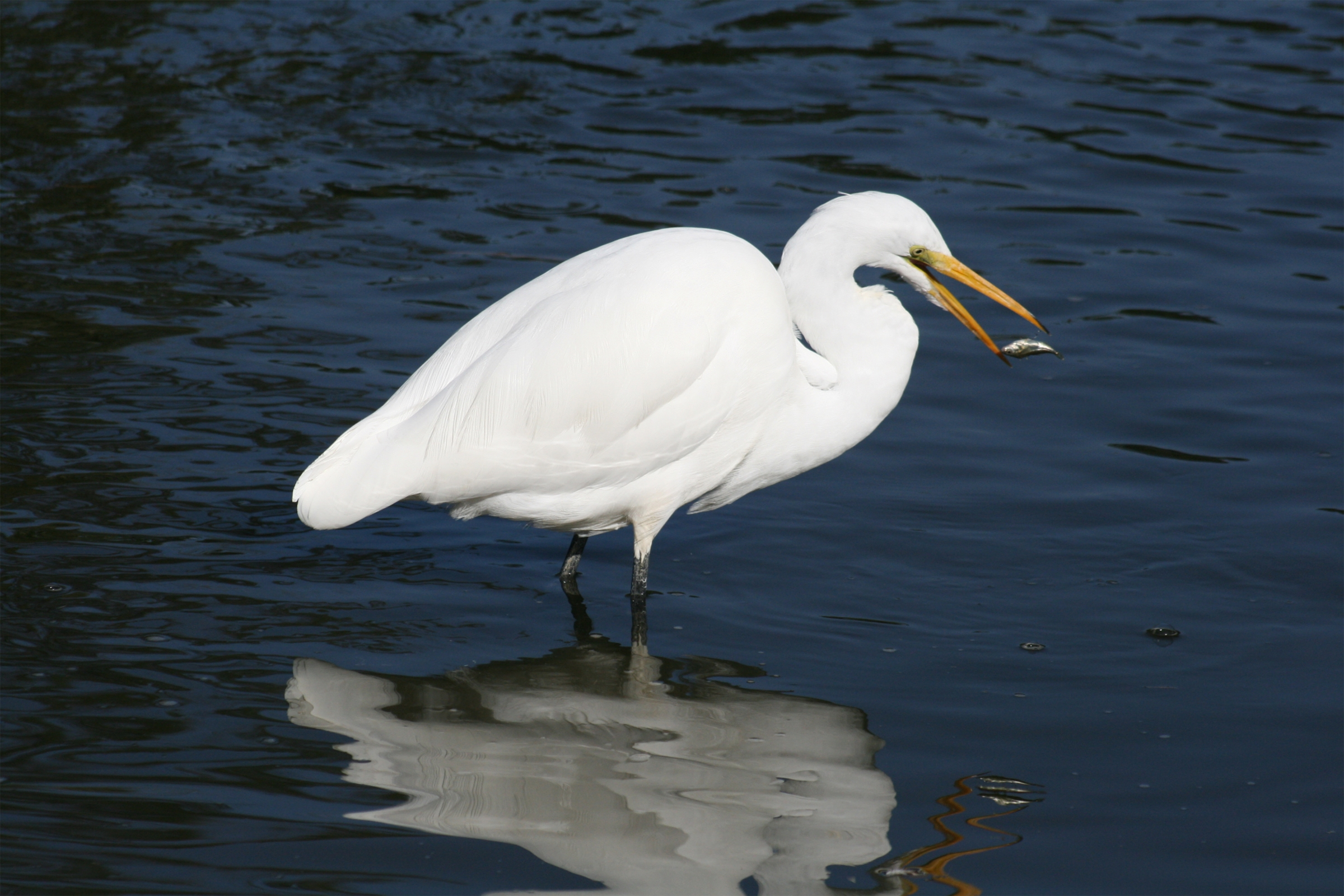 Great Egret with a fish